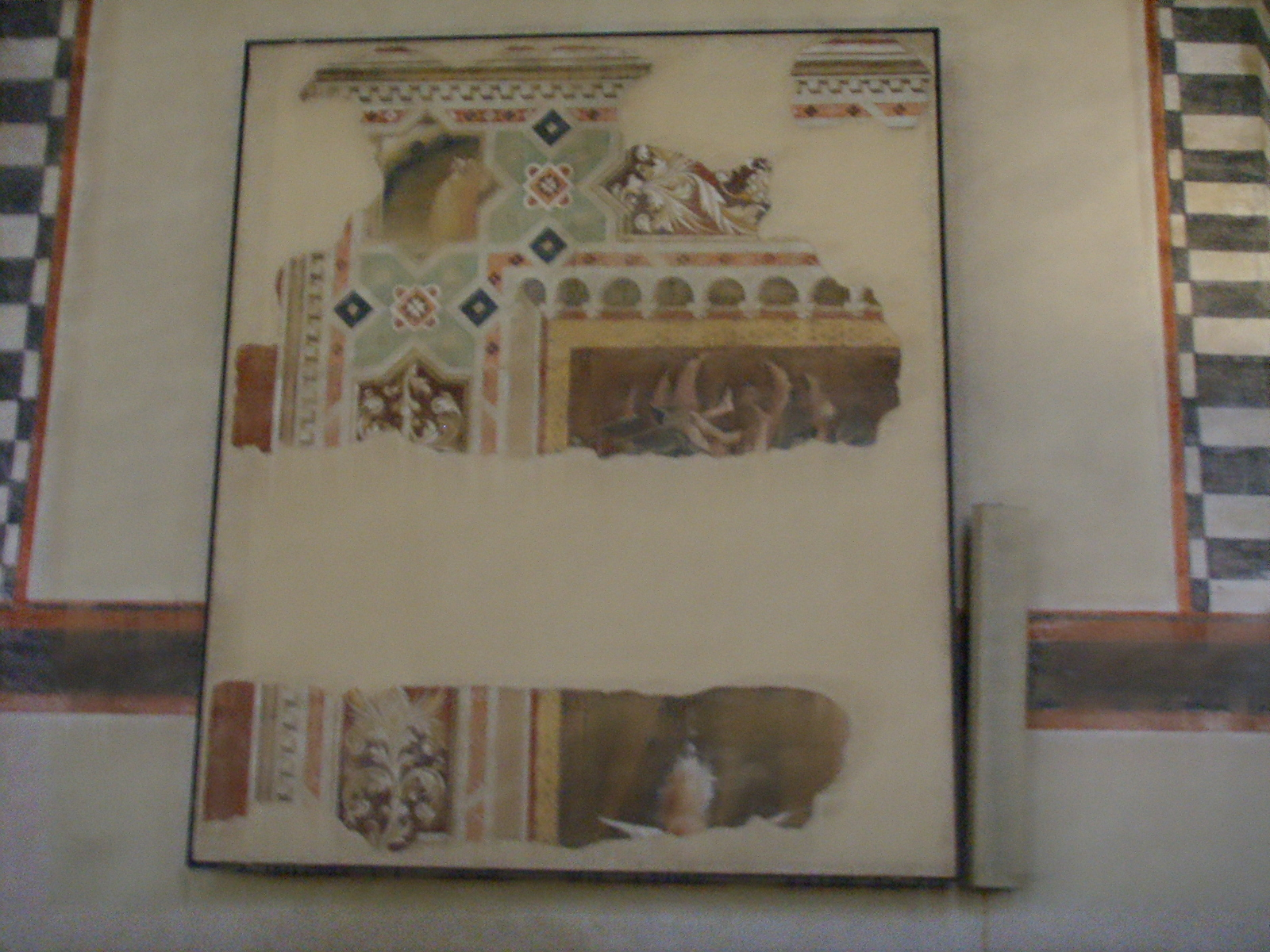 Santa Croce museum, refectory, Orcagna fresco, in Florence, Italy